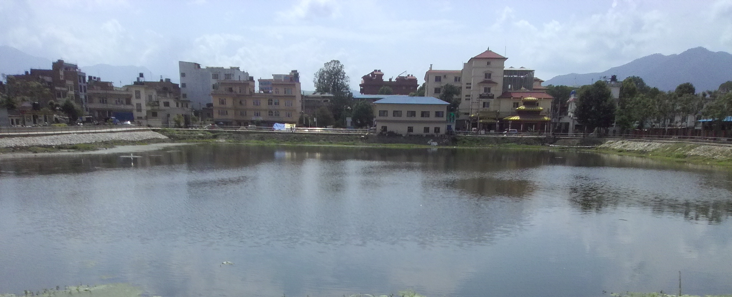 kamalpokhari is heritage pond.